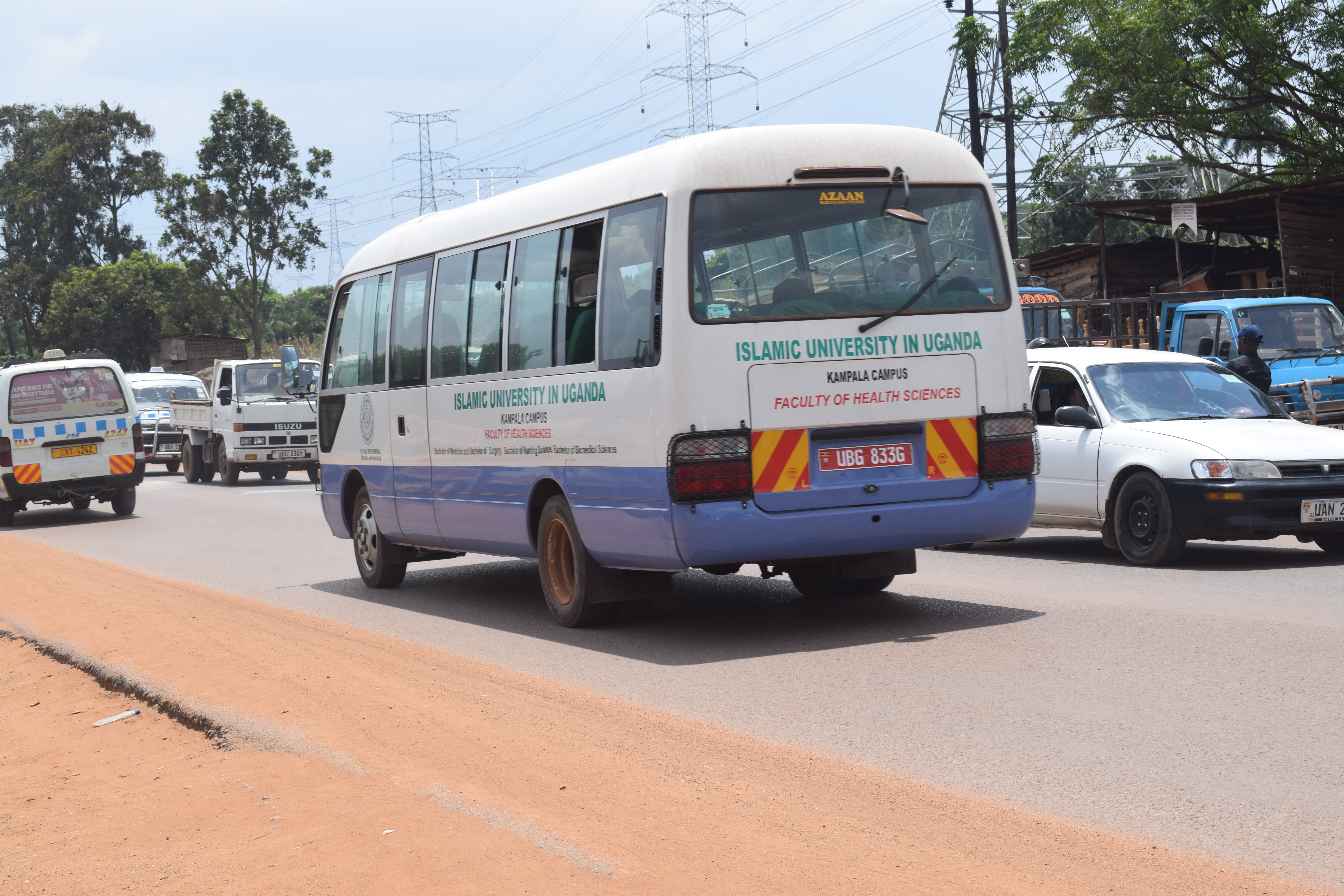 Private transportation for a University institution This is an image with the theme "Africa on the Move or Transport" from: Uganda